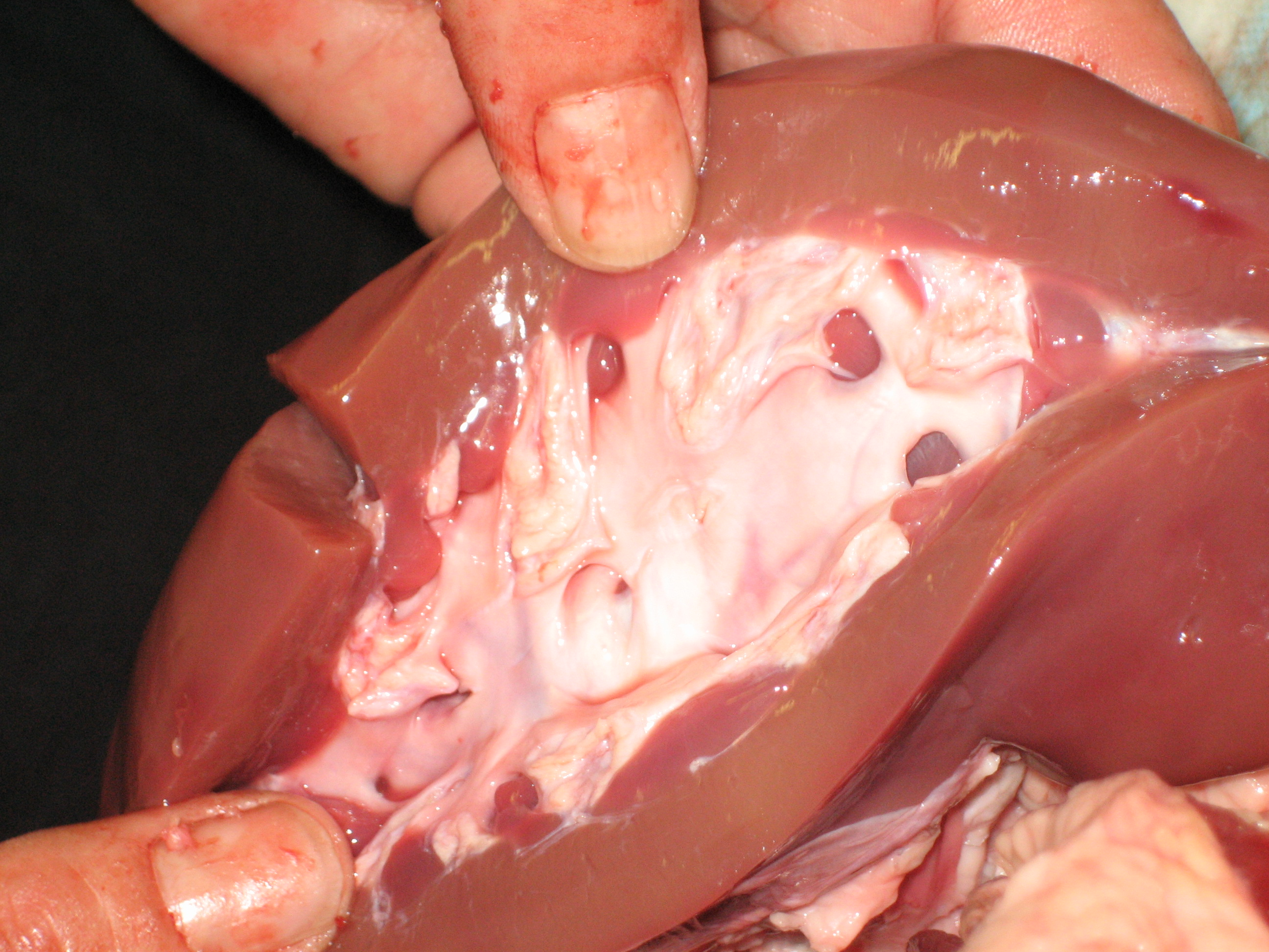 A pig's (Sus scrofa domestica) kidney (ren) opened